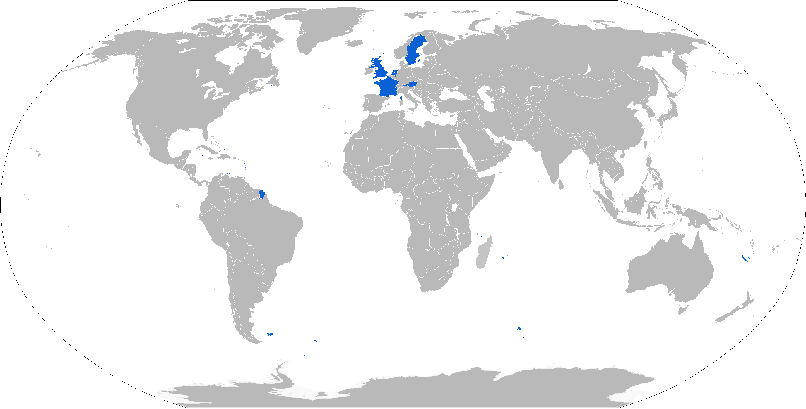 Map with BvS 10 operators in blue